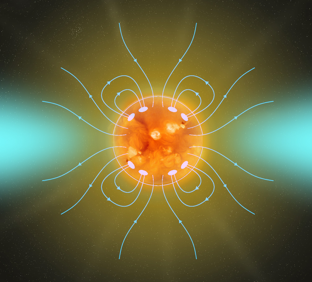 Illustration of the fields in the corona